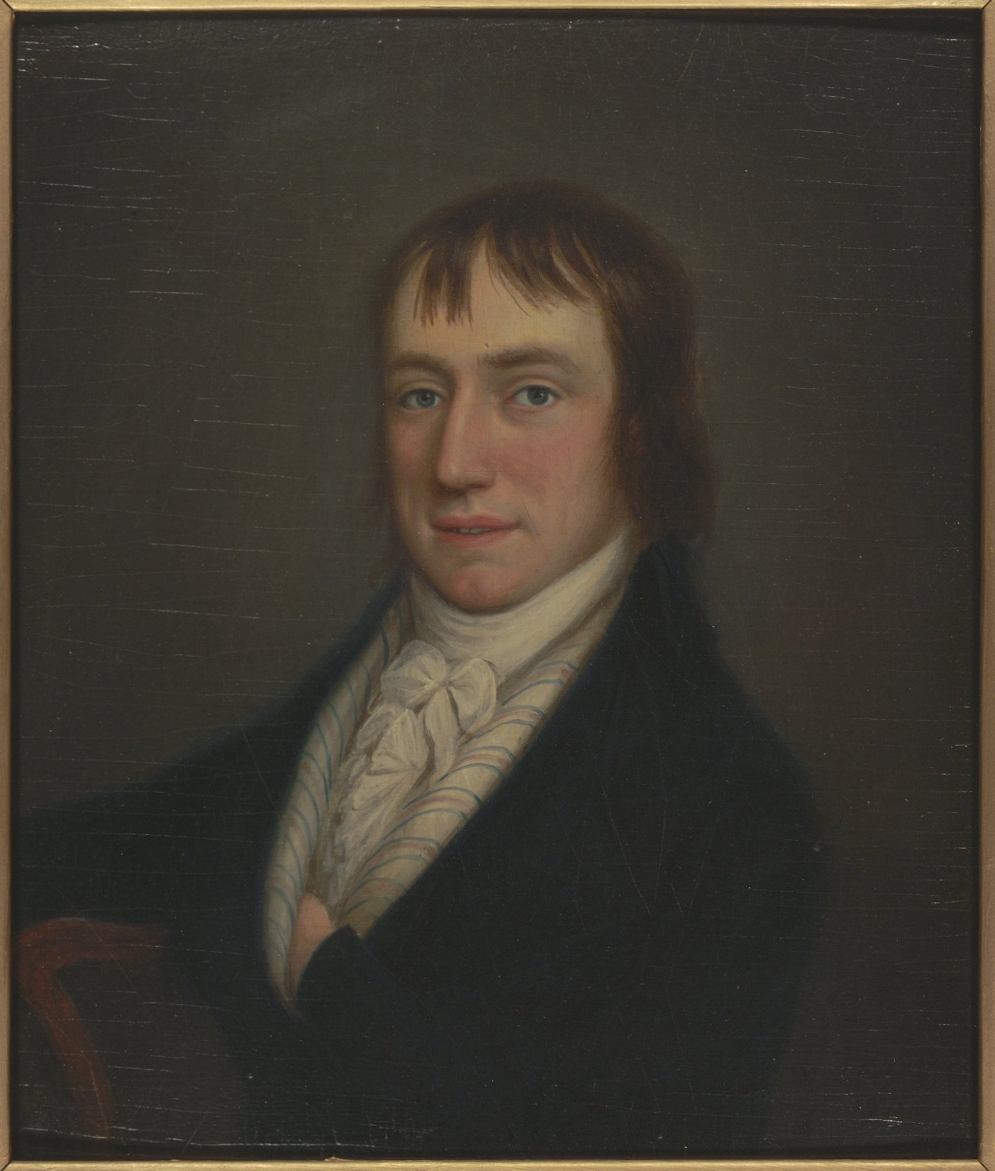 Portrait of William Wordsworth, by William Shuter, 1798.